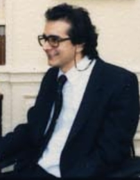 Charles Krauthammer at the White House, meeting President Ronald Reagan